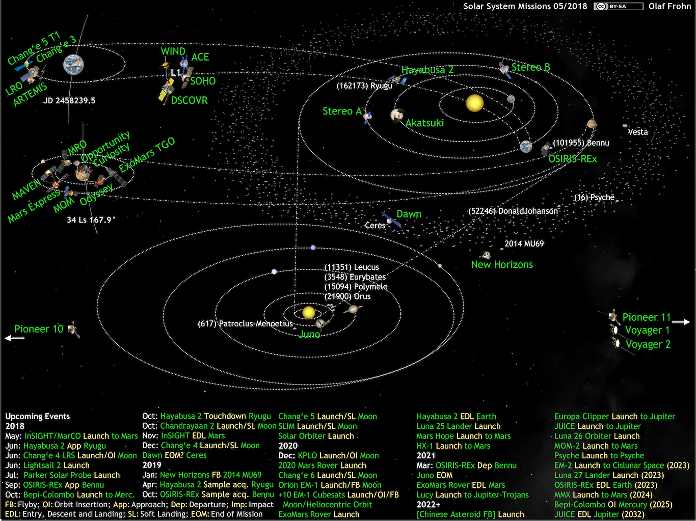 A diagram of active space missions traveling beyond Earth orbit, May 2018.